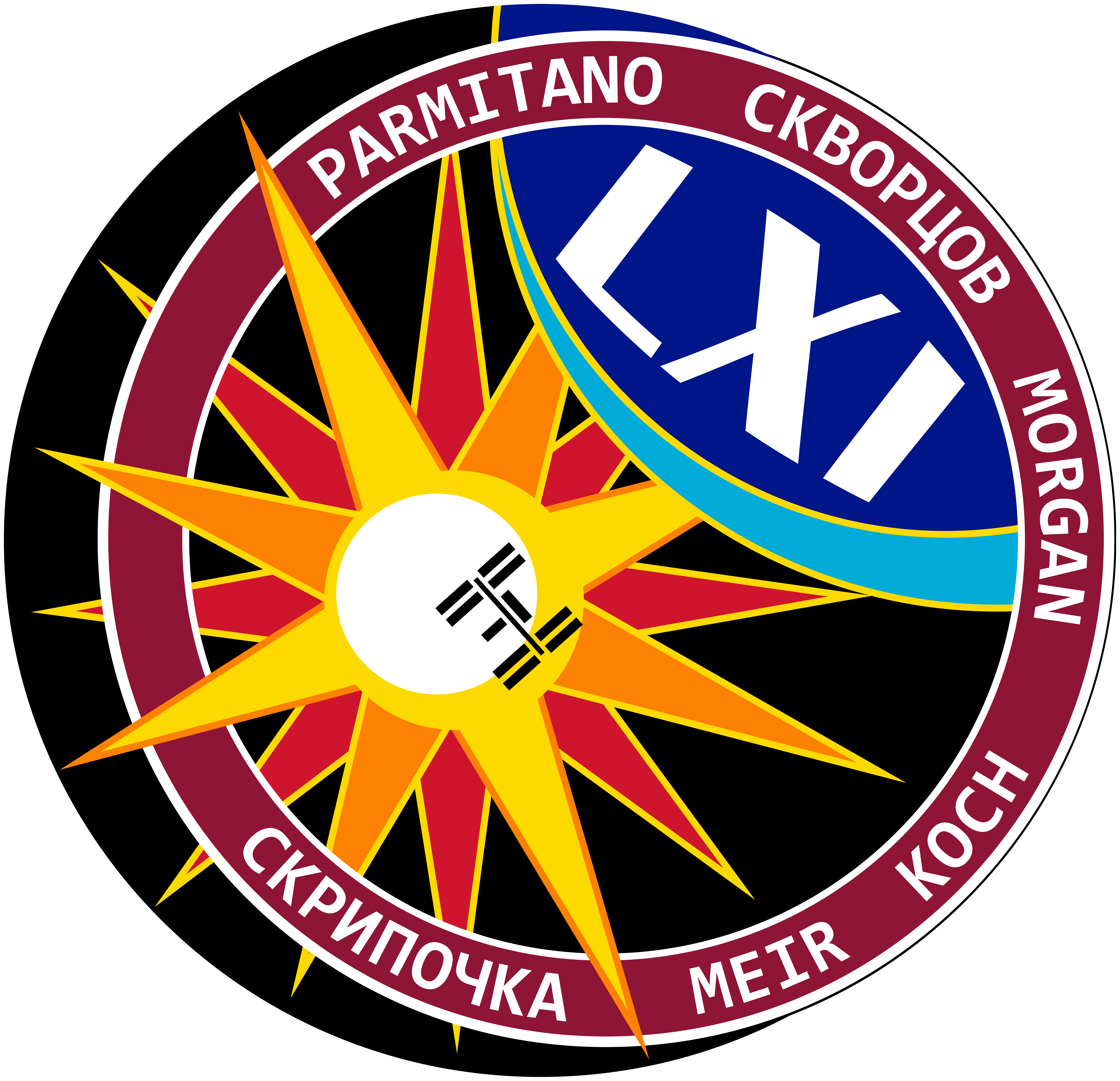 The mission insignia for the Expedition 61 crew with Commander Luca Parmitano of ESA (European Space Agency), NASA astronauts Drew Morgan, Christina Koch and Jessica Meir and Roscosmos cosmonauts Alexander Skvortsov and Oleg Skripochka.